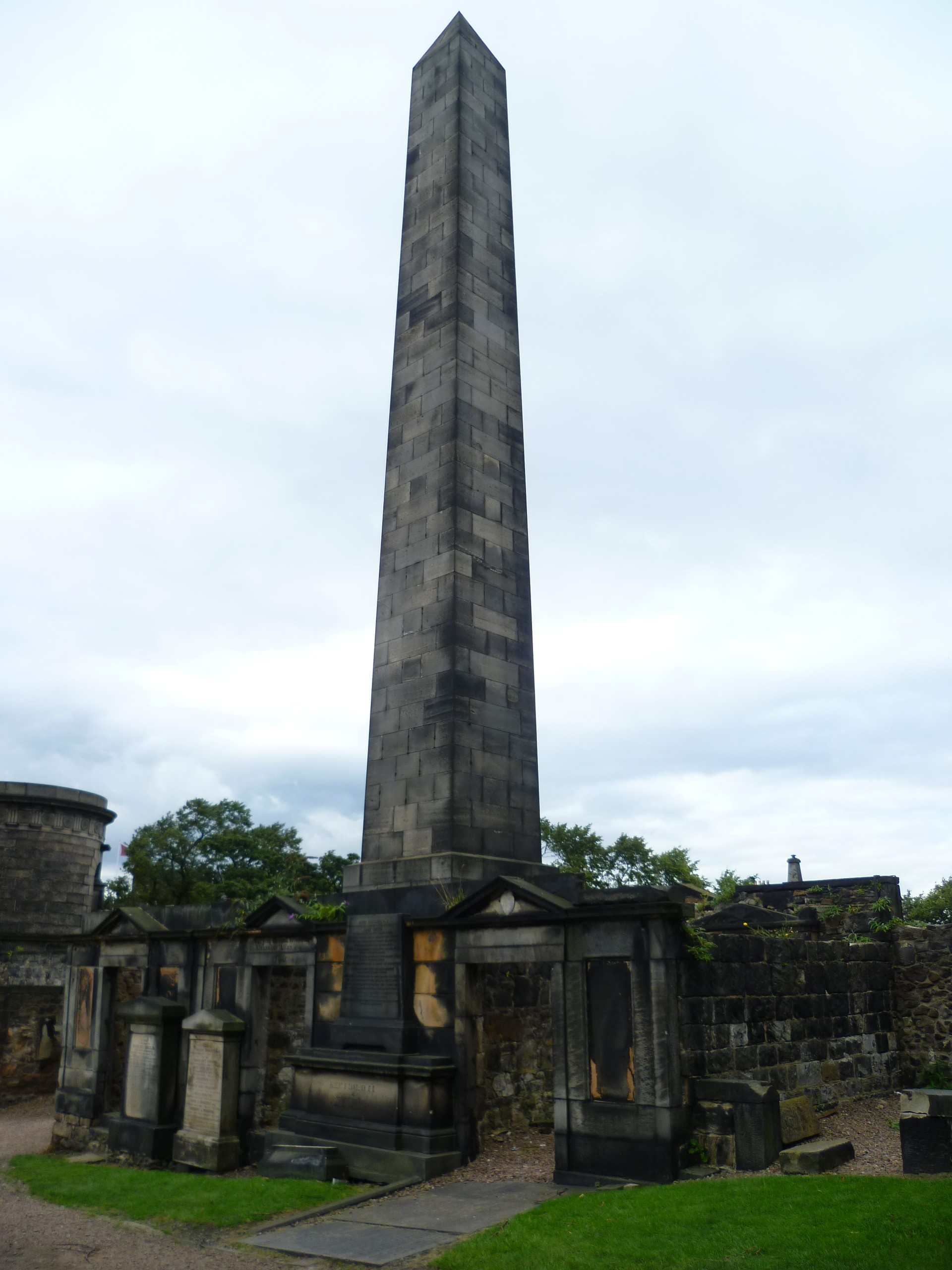 A 90-foot (27m) high obelisk, funded by public subscription to commemorate political radicals who suffered for the cause of parliamentary reform. It was designed by Thomas Hamilton whose grave is close by.